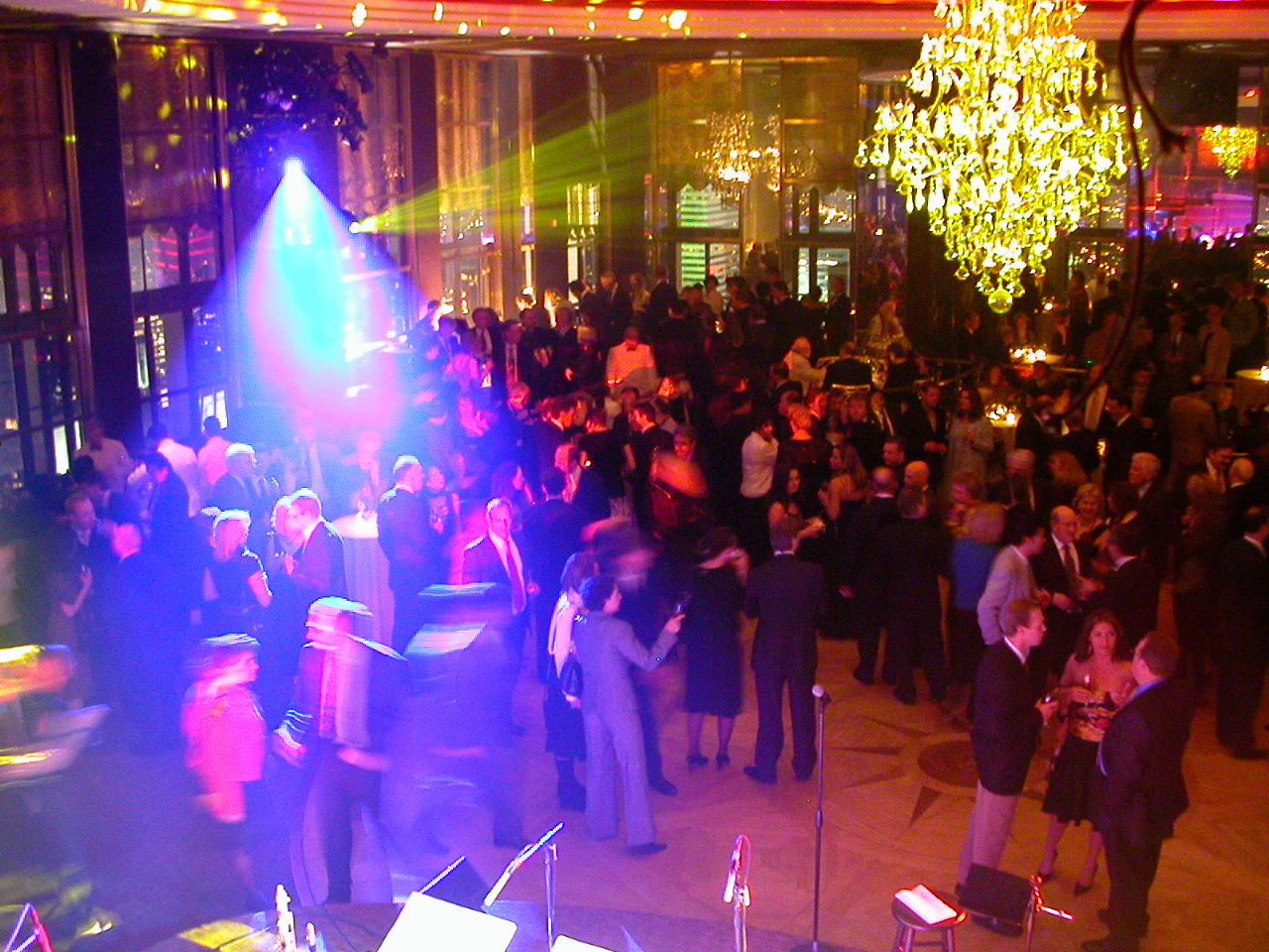 Dining and dance floor, Rainbow Room